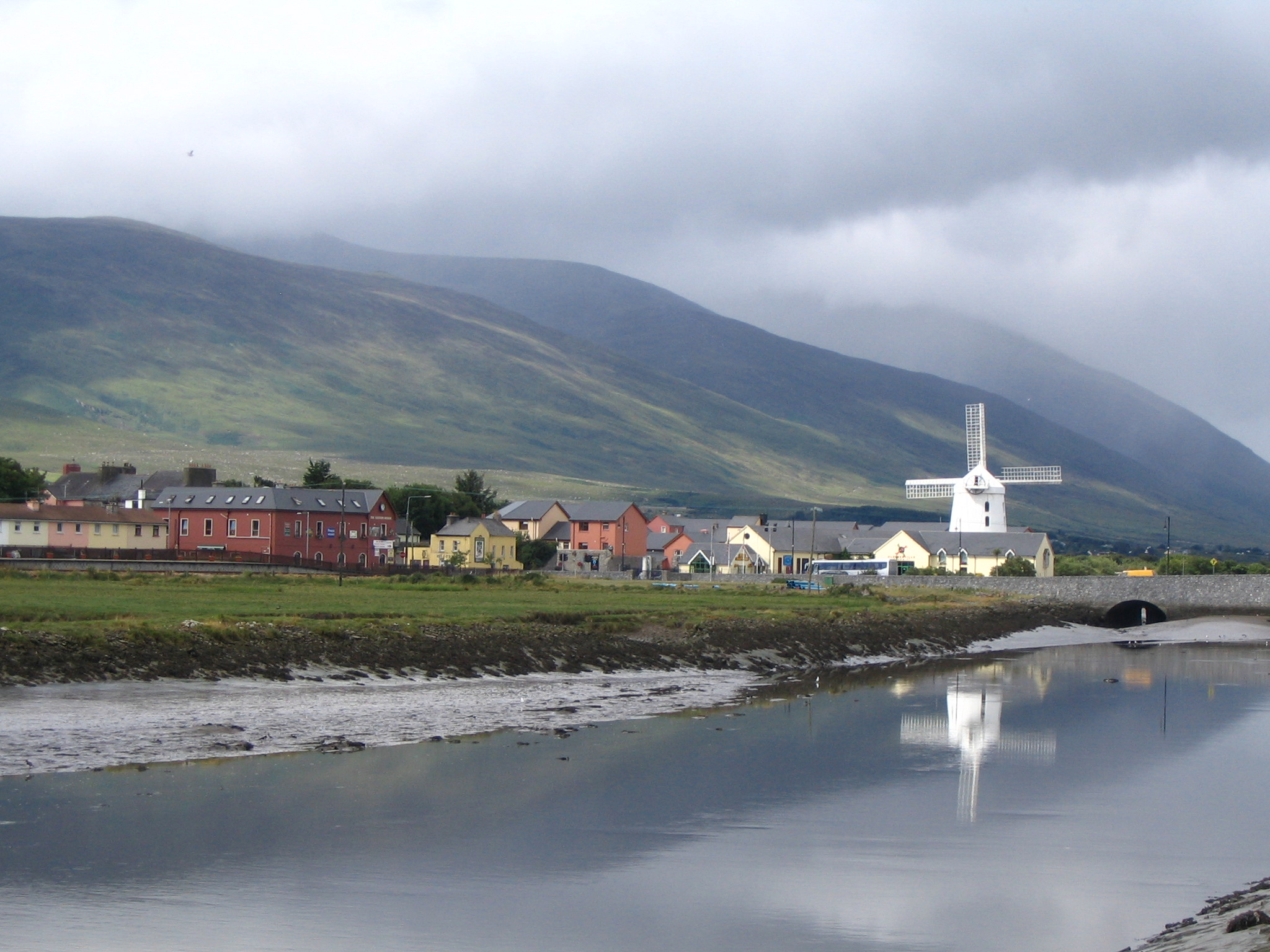 Blennerville